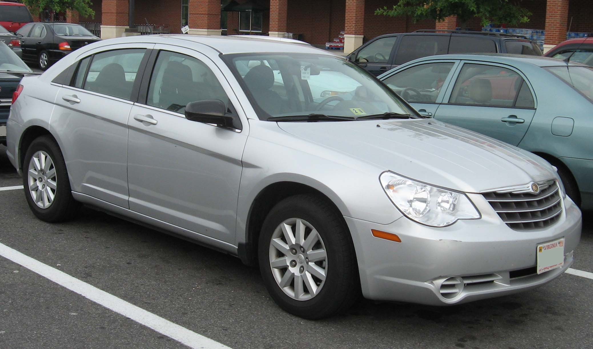 2007 Chrysler Sebring photographed in USA.